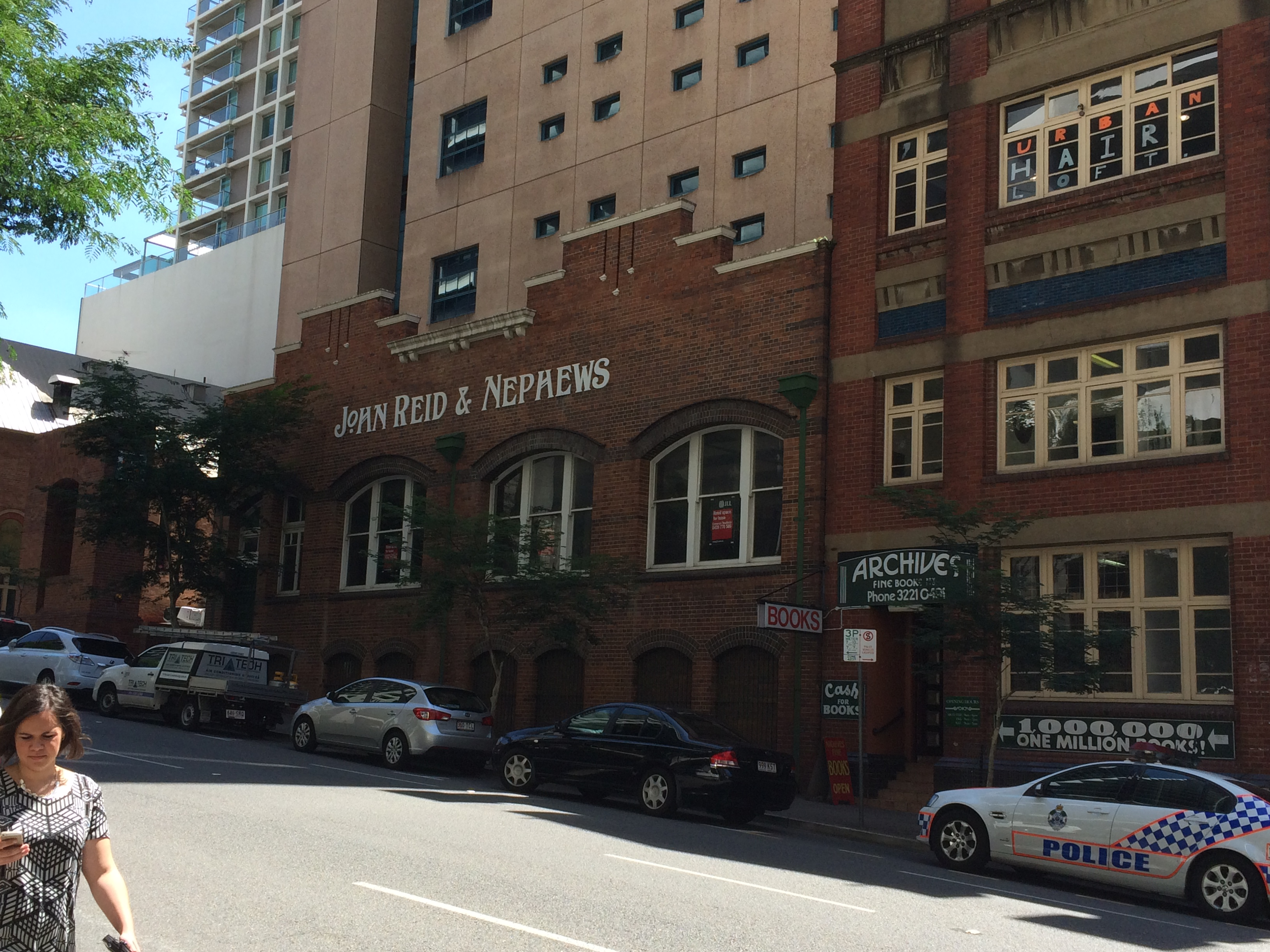 John Reid & Nephews Building facade, Charlotte Street, Brisbane 2015 (to the right is the John Mills Himself building)